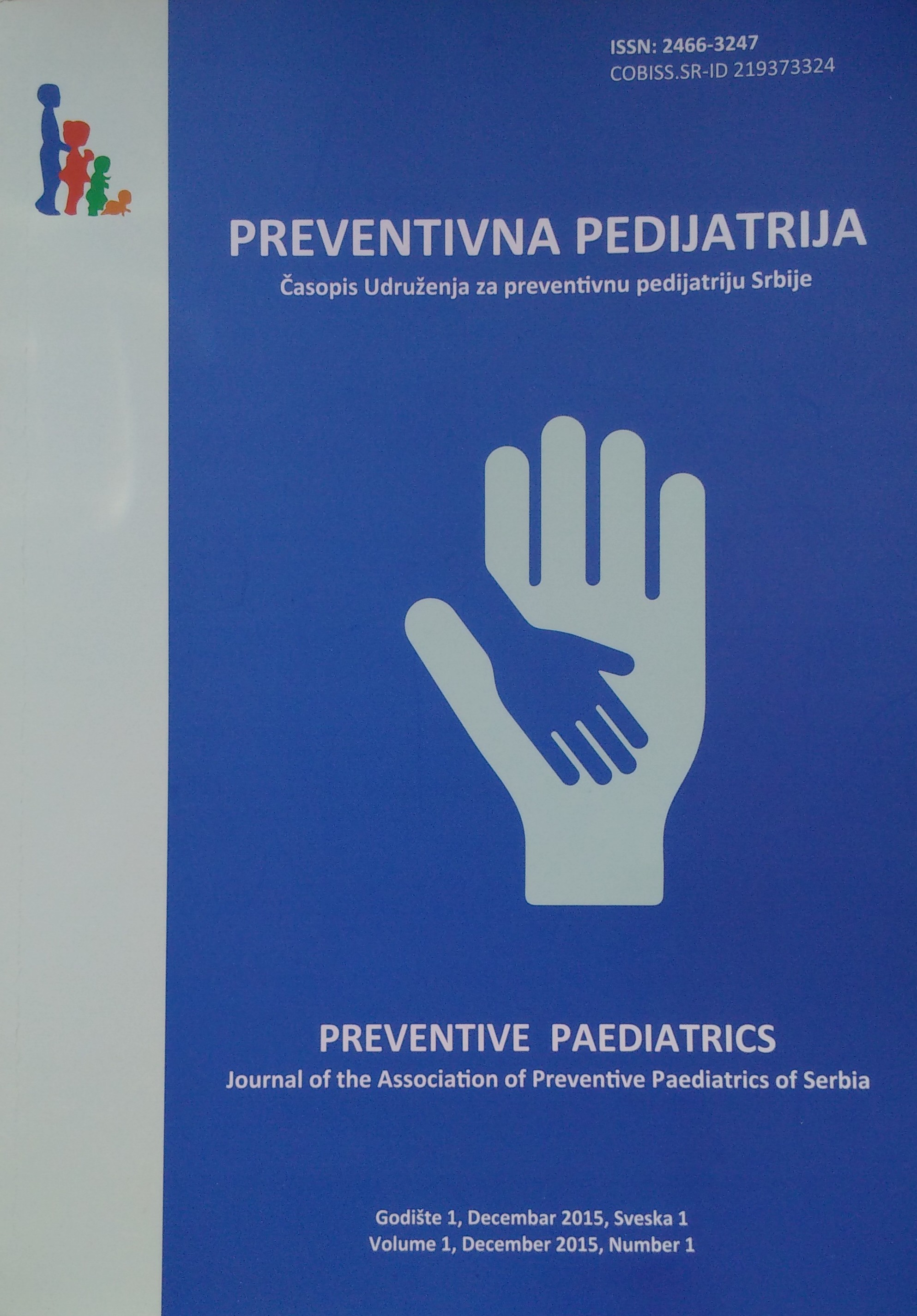 Cover of Journals Preventivna pedijatrija, The Association of preventive pediatrics of Serbia, Niš, Serbia, Number 1 from 2015 Srpski (latinica): Korice časopisa Preventivna pedijatrija, izdavač Udruženje za preventivnu pedijatriju Srbije, Niš, broj 1 iz 2015. godine